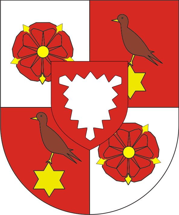 Coat of arms of the County of Schaumburg-Lippe